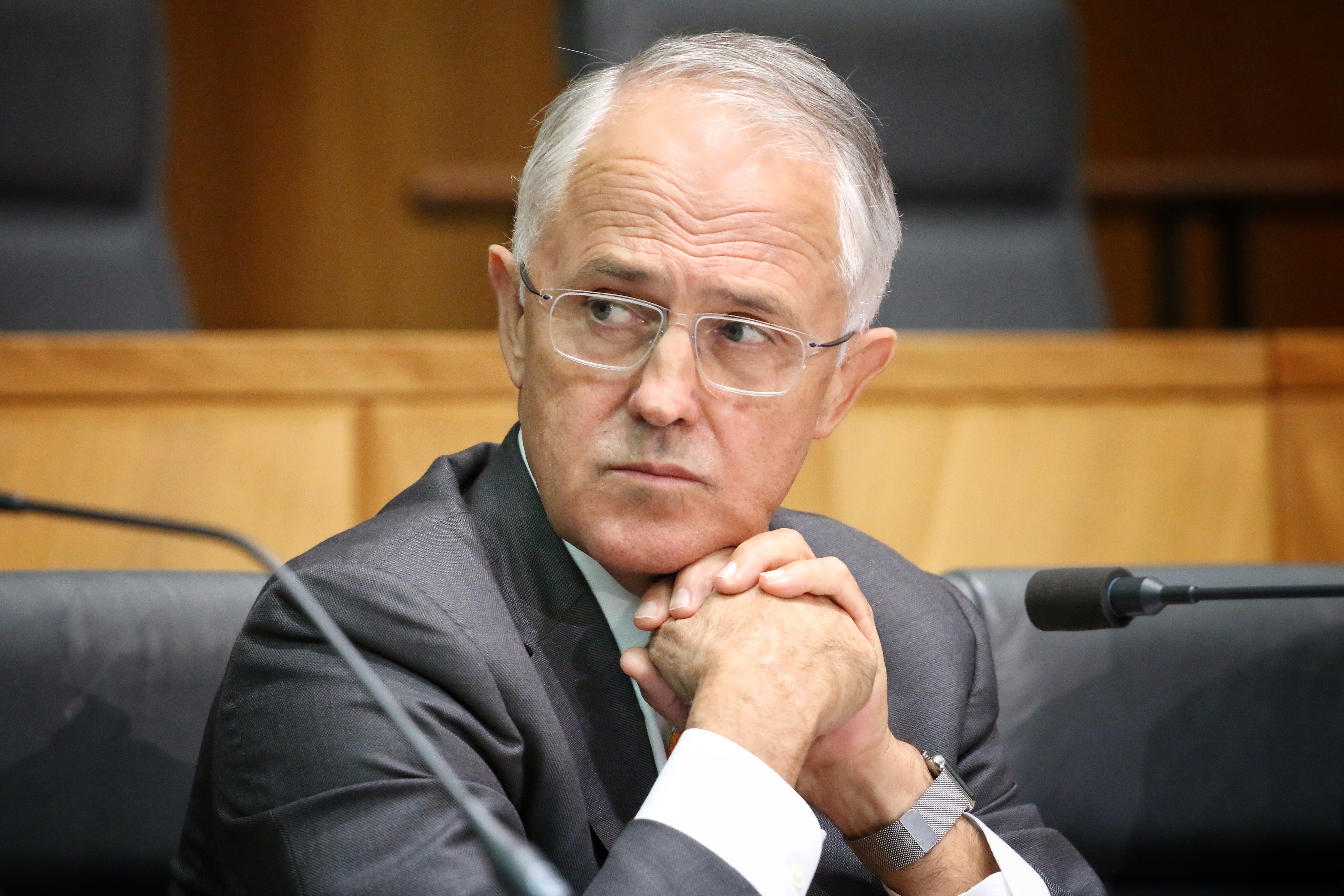 Prime Minister Malcolm Turnbull at a meeting of the Council of Australian Governments in April 2016